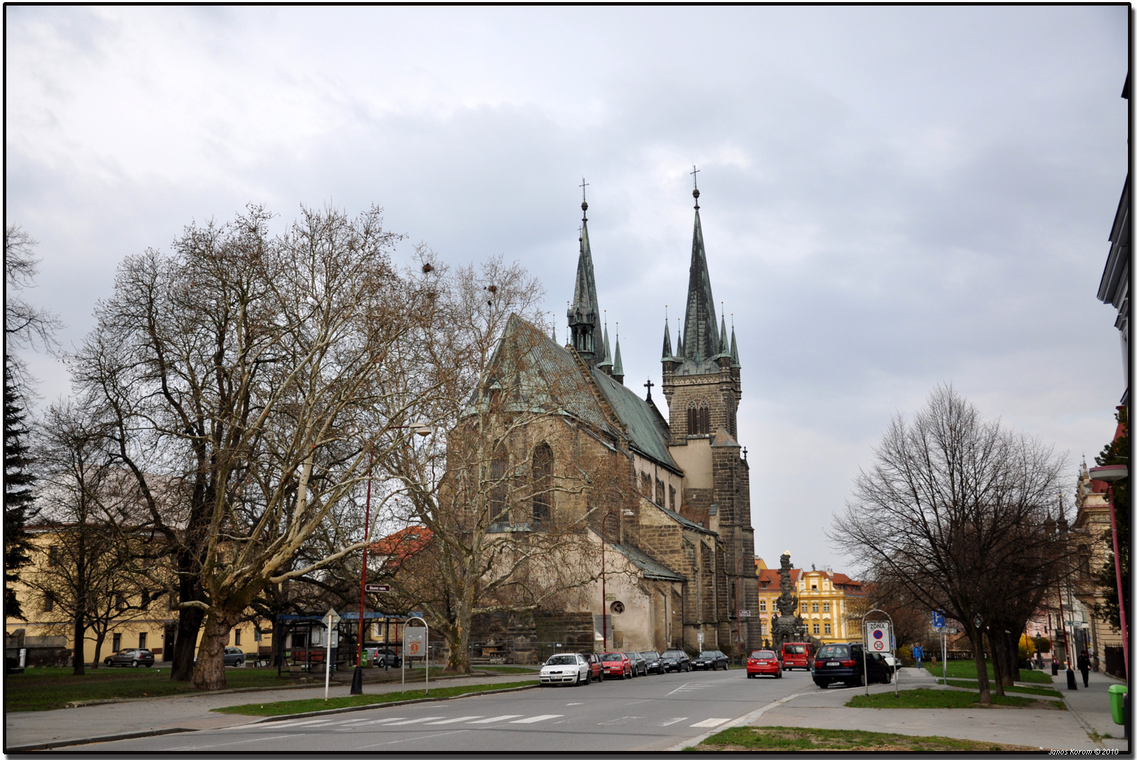 Church of the Assumption of the Virgin Mary in Chrudim